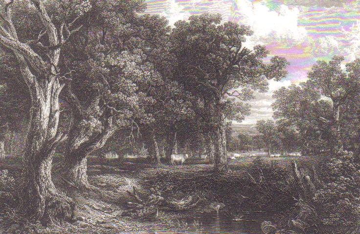 Cadzow forest in Lanarkshire. A 19th-century view. An ancient oak forest remnant with the Cadzow herd of Chillingham white cattle still living here.